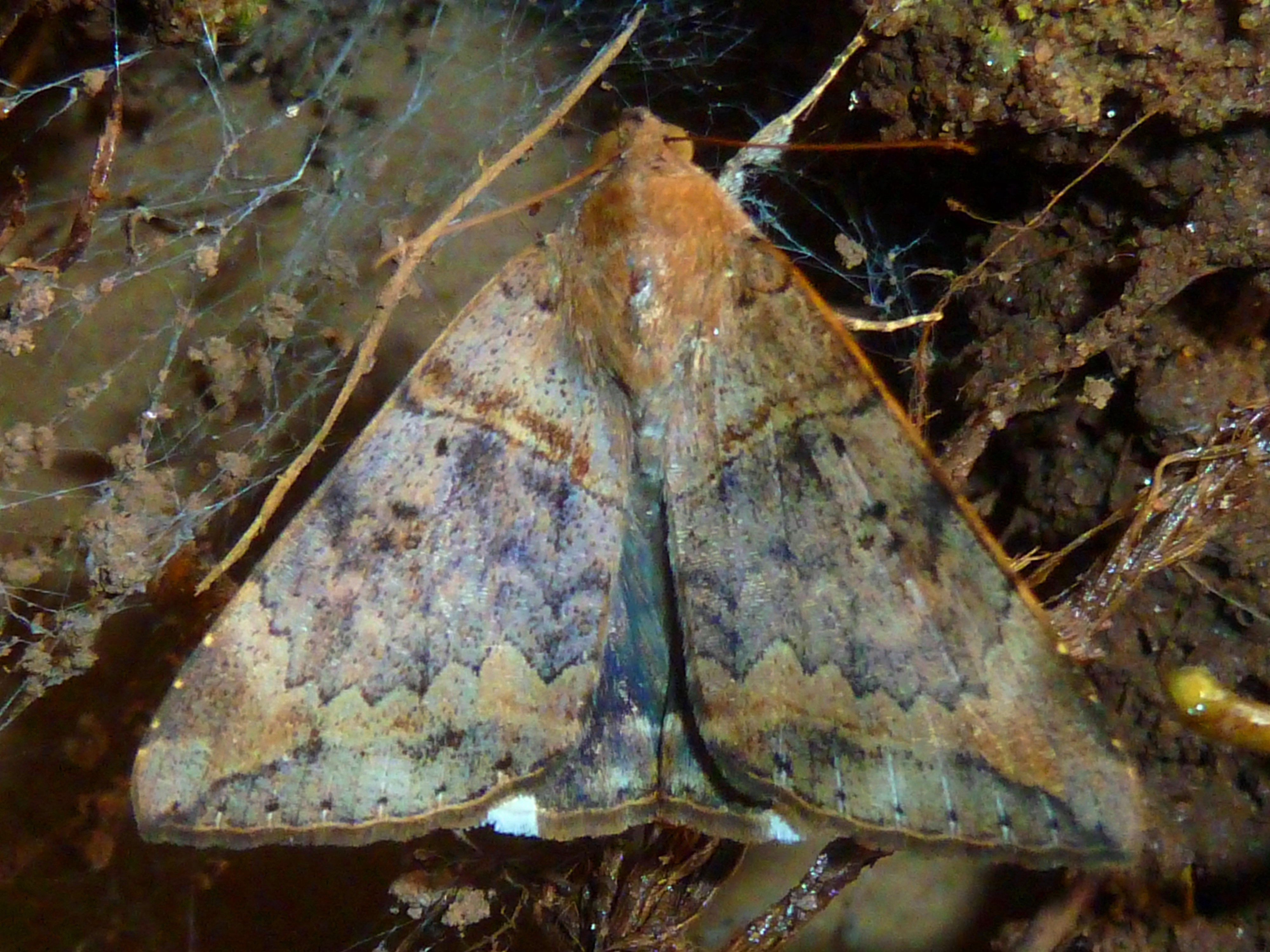 Achaea lienardi in Krantzkloof Nature Reserve